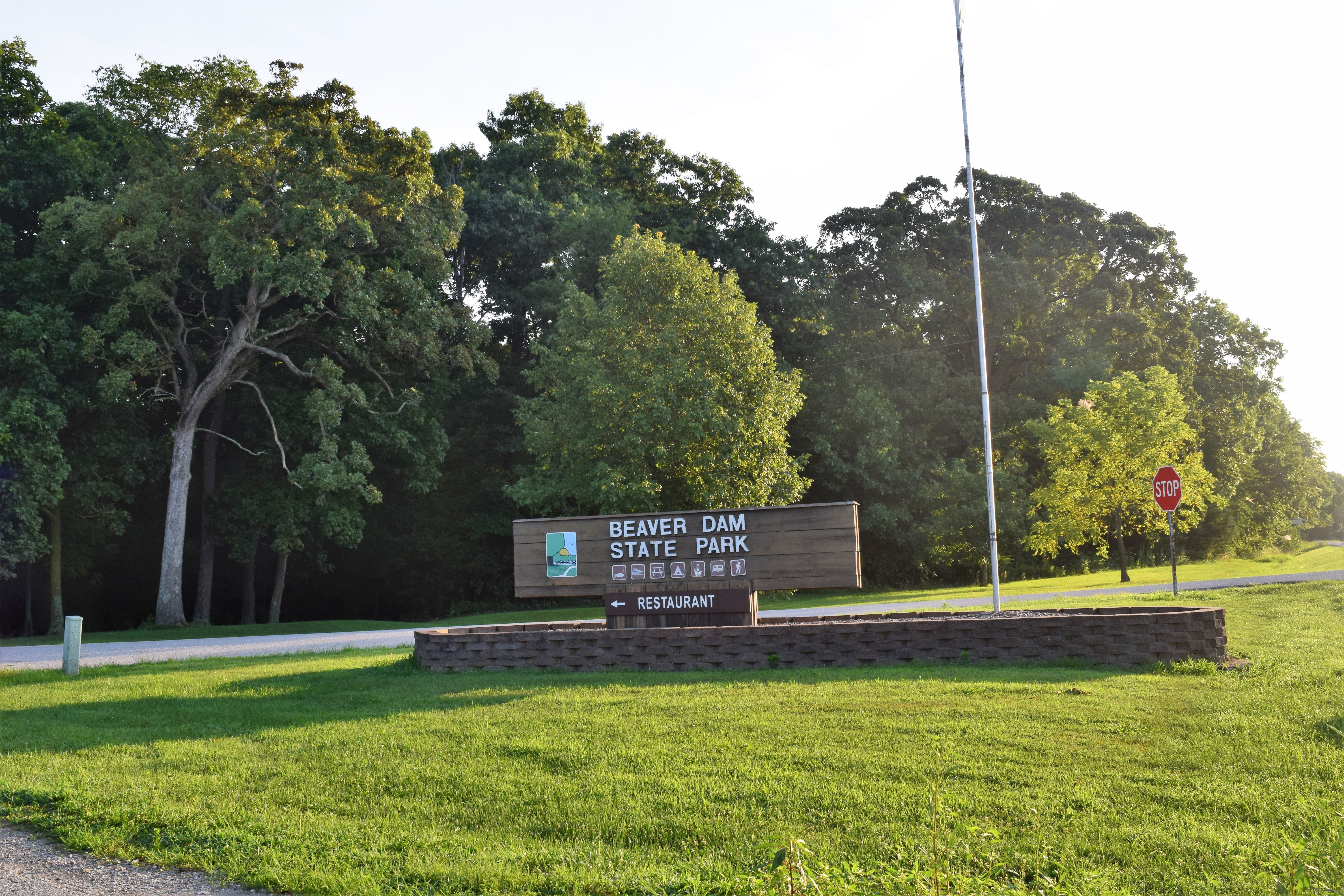 Entrance sign at Beaver Dam State Park in Macoupin County, Illinois.